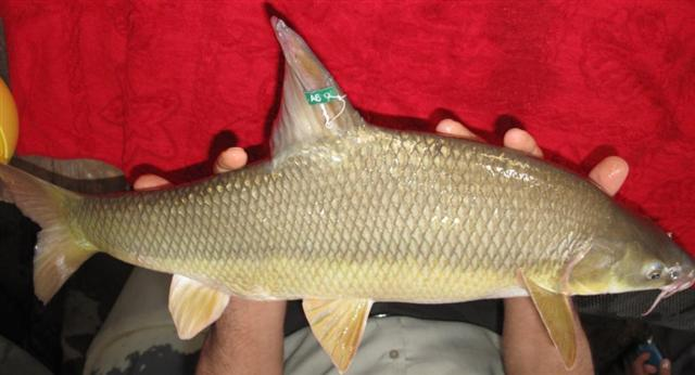 Collected in Iran